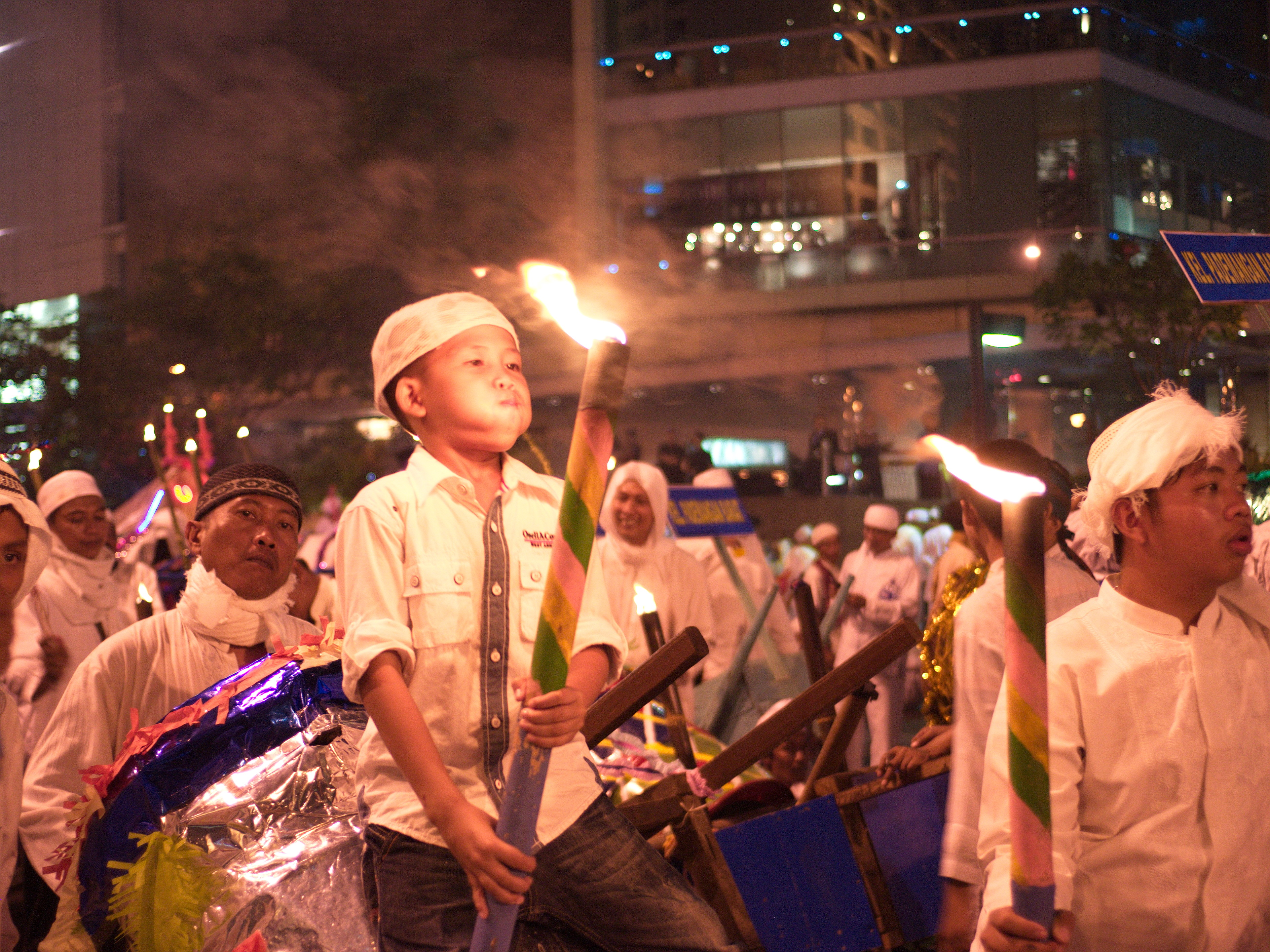 Eid al-Adha procession in Jakarta